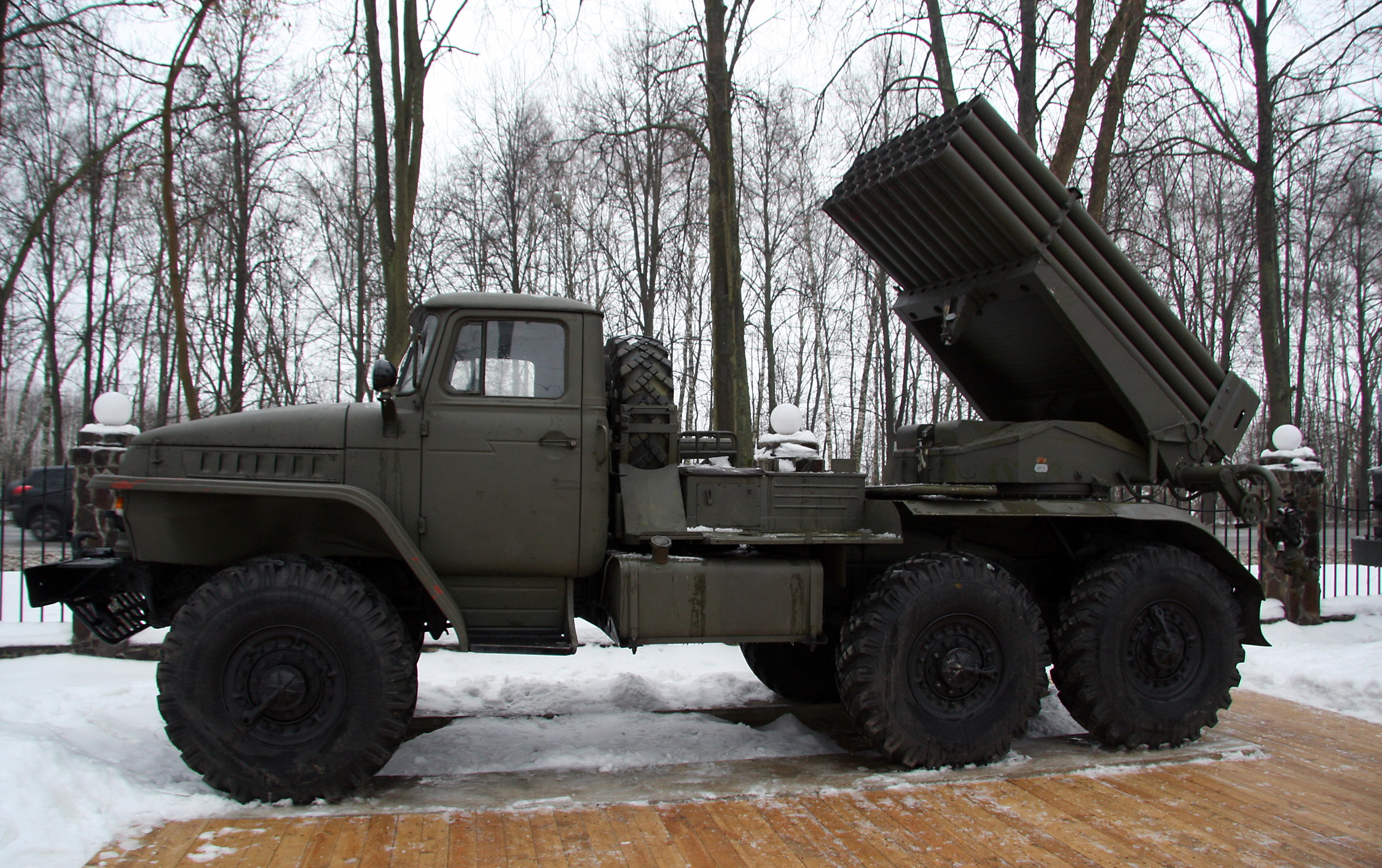 BM-21 Grad on Ural-375D chassis